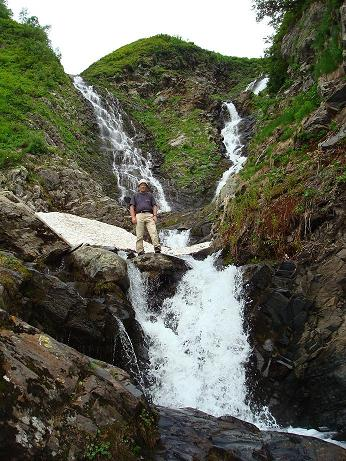 Waterfall Achipse, mount Achishkho near Sochi, Krasnodarsky krai, Russia